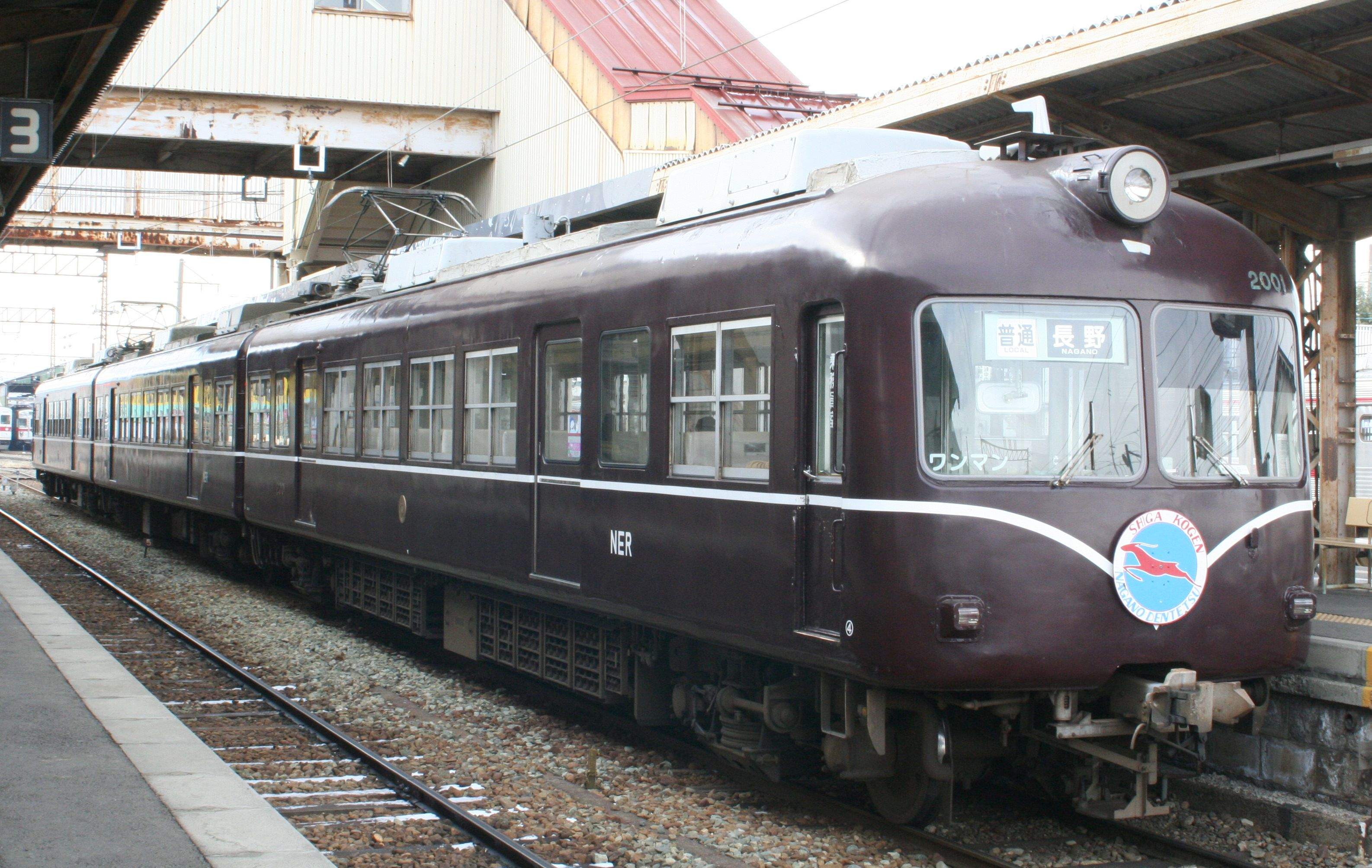 Nagano Electric Railway 2000 series EMU set A at Suzaka Station